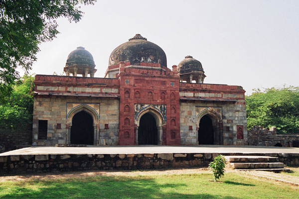 Isa Khan’s Mosque, New Delhi, India